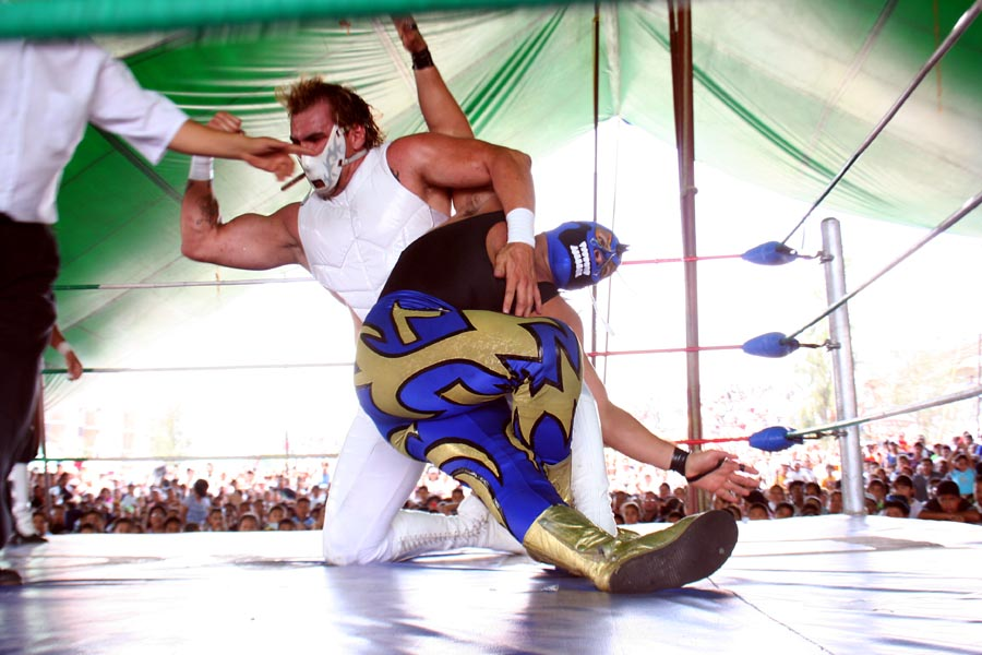 Action from a professional wrestling match in Mexico